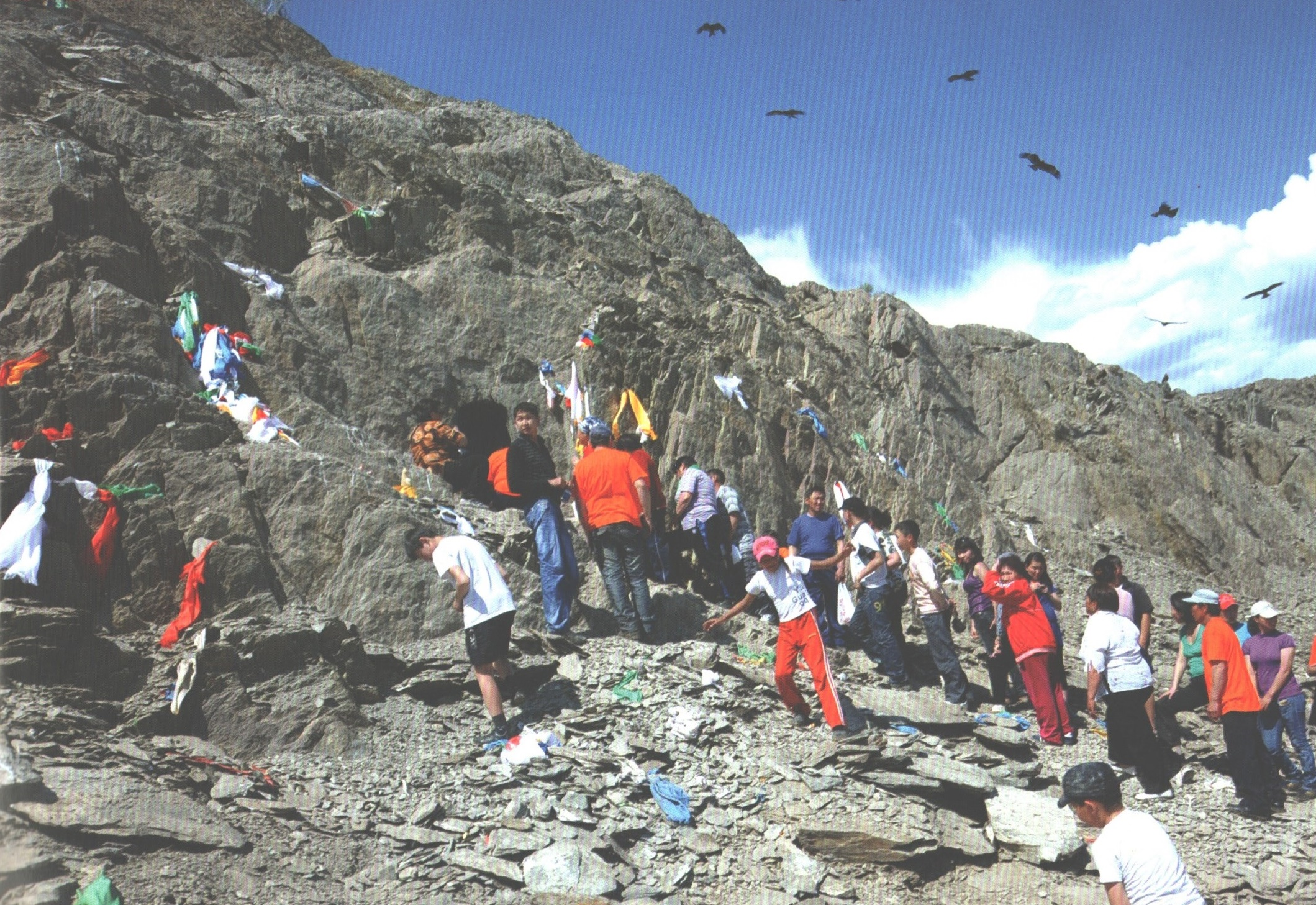 Nisha Sume